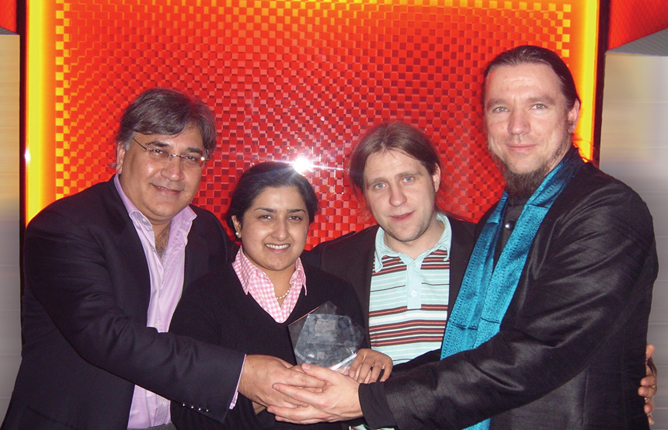 sha. receiving the Indian Award for the Most Innovative Product (with Pav Mahal, Niqi Kundhi and Wojt Bork)